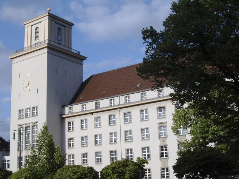 The Tempelhof town hall! This photo was taken on 16th of June 2004 by myself. With a closer look, you can even see the time of the day ;-) The photo has no special license and is herewith given to the public domain.